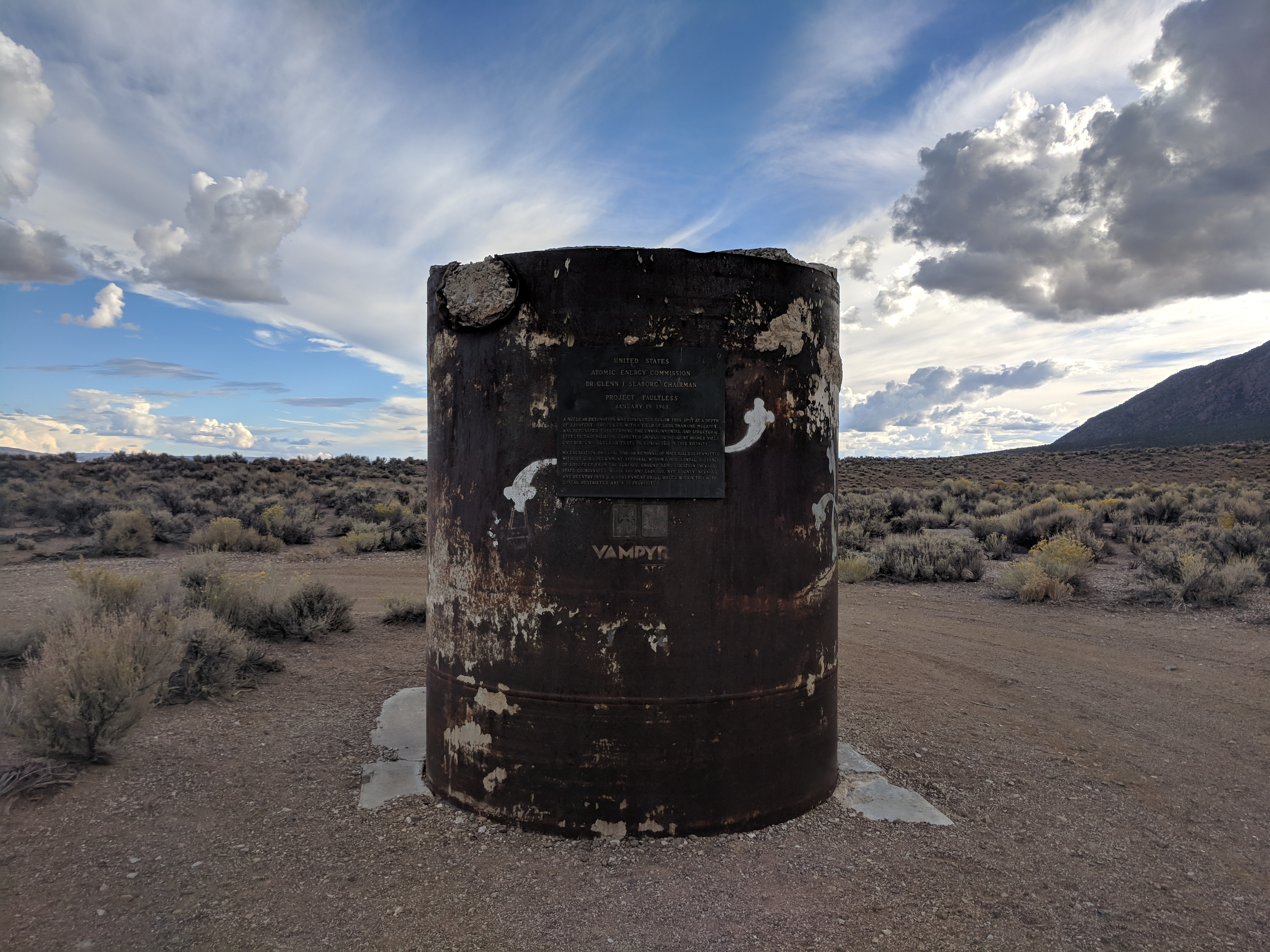 Inscription reads: "A nuclear detonation was conducted below this spot at a depth of 3,200 feet. The device with a yield of less than one megaton was detonated to determine the environmental and structural impacts that might be expected should subsequent higher yield underground nuclear tests be conducted in this vicinity. No excavation, drilling, and/or removal of materials is permitted without U.S. Government approval within a horizontal distance of 3,300 feet from the surface ground zero location (Nevada State Coordinates N1,414,340 and E629,000, Nye County, Nevada). Any reentry into U.S. Government drill holes within this horizontal restricted area is prohibited.